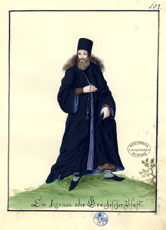 From Trachten-Kabinett von Siebenbürgen album. Drawn in 1729, based on the 1692 watercolours of an artist from Graz Given to the Romanian Academy by Baron Ludovic Czekelius of Rosenfeld. Ein Iegumen oder Griechischer Pfaff